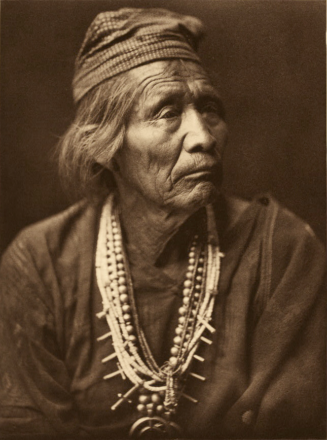 Navajo medicine man - Nesjaja Hatali American Memory from the Library of Congress Nesjaja Hatali - Navaho (The North American Indian; v.01) CREATOR Curtis, Edward S., 1868-1952. SUMMARY Description by Edward S. Curtis: A well-known Navaho medicine-man. While in the Cañon de Chelly the writer witnessed a very interesting four days' ceremony given by the Wind Doctor. Nesjaja Hatali was also assistant medicine-man in two nine days' ceremonies studied - one in Cañon del Muerto and the other in this portfolio (No. 39) is reproduced from one made and used by this priest-doctor in the Mountain Chant. NOTES 1 photogravure : brown ink ; 44 x 33 cm. Original photogravure produced in Boston by John Andrew & Son, c1904. Original source: The Apache. The Jicarillas. The Navaho [portfolio] ; plate no. 31 Seattle : S.E. Curtis, 1907. OBJECT TYPE Photomechanical print Image REPOSITORY Northwestern University. Library., Evanston, Ill. DIGITAL ID